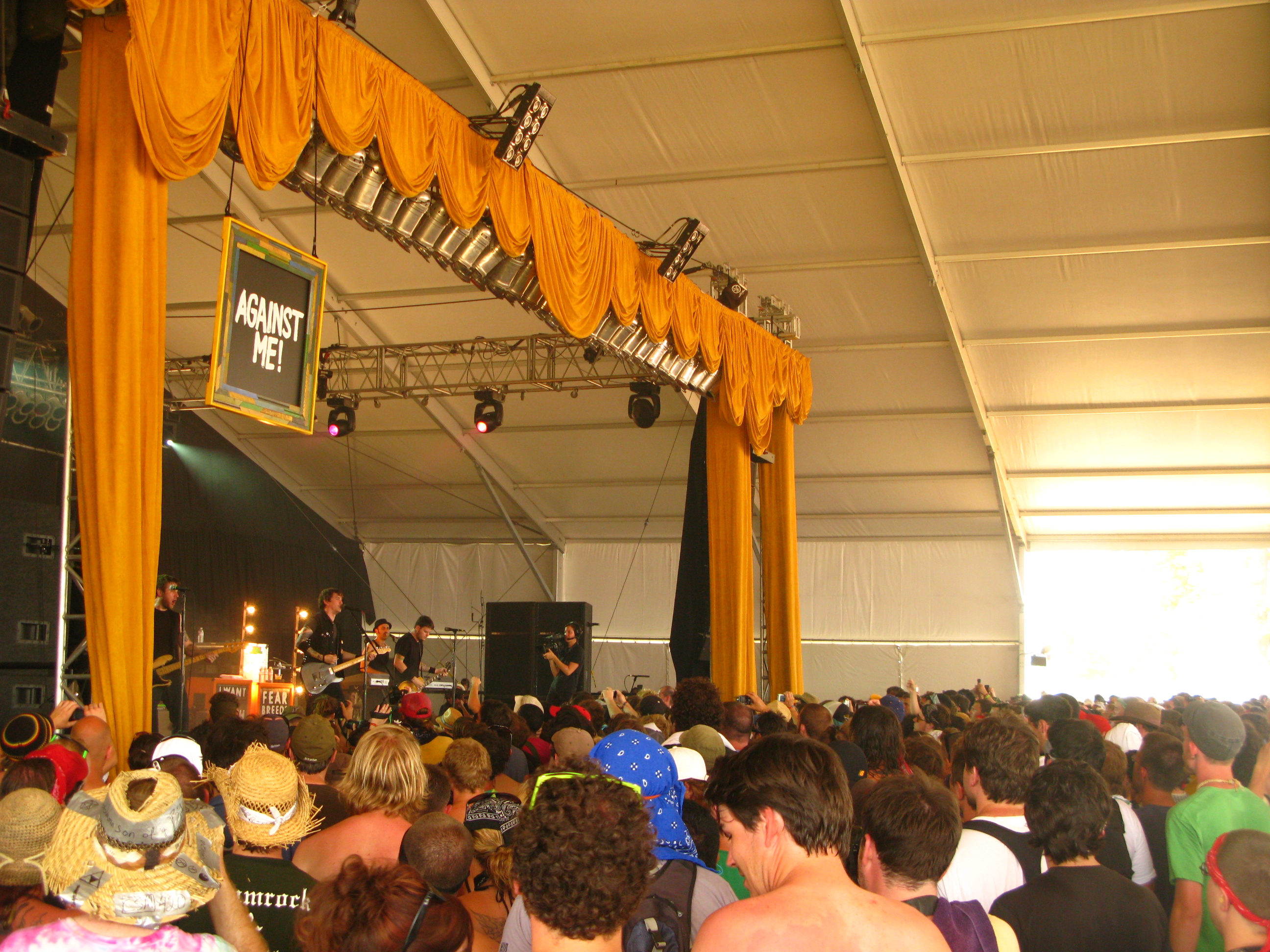 Bonnaroo Music and Arts Festival 2010 Manchester, TN By JASON ANFINSEN